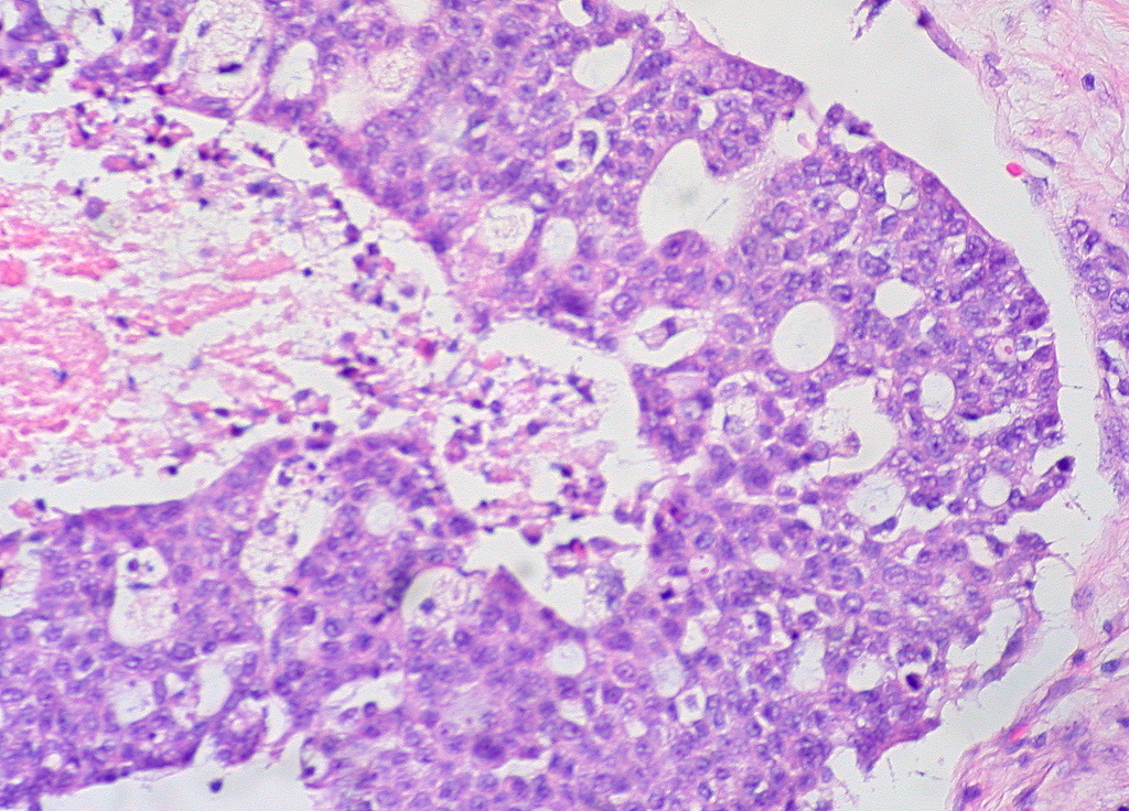 Left ovary, medium power Pathological and histological images courtesy of Ed Uthman at flickr.